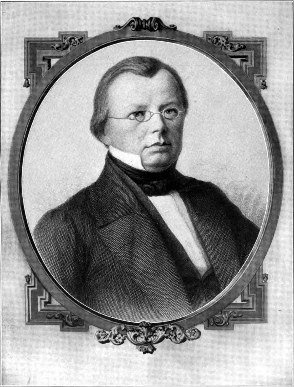 Portrait of German philosopher Johann Gottlieb Fichte